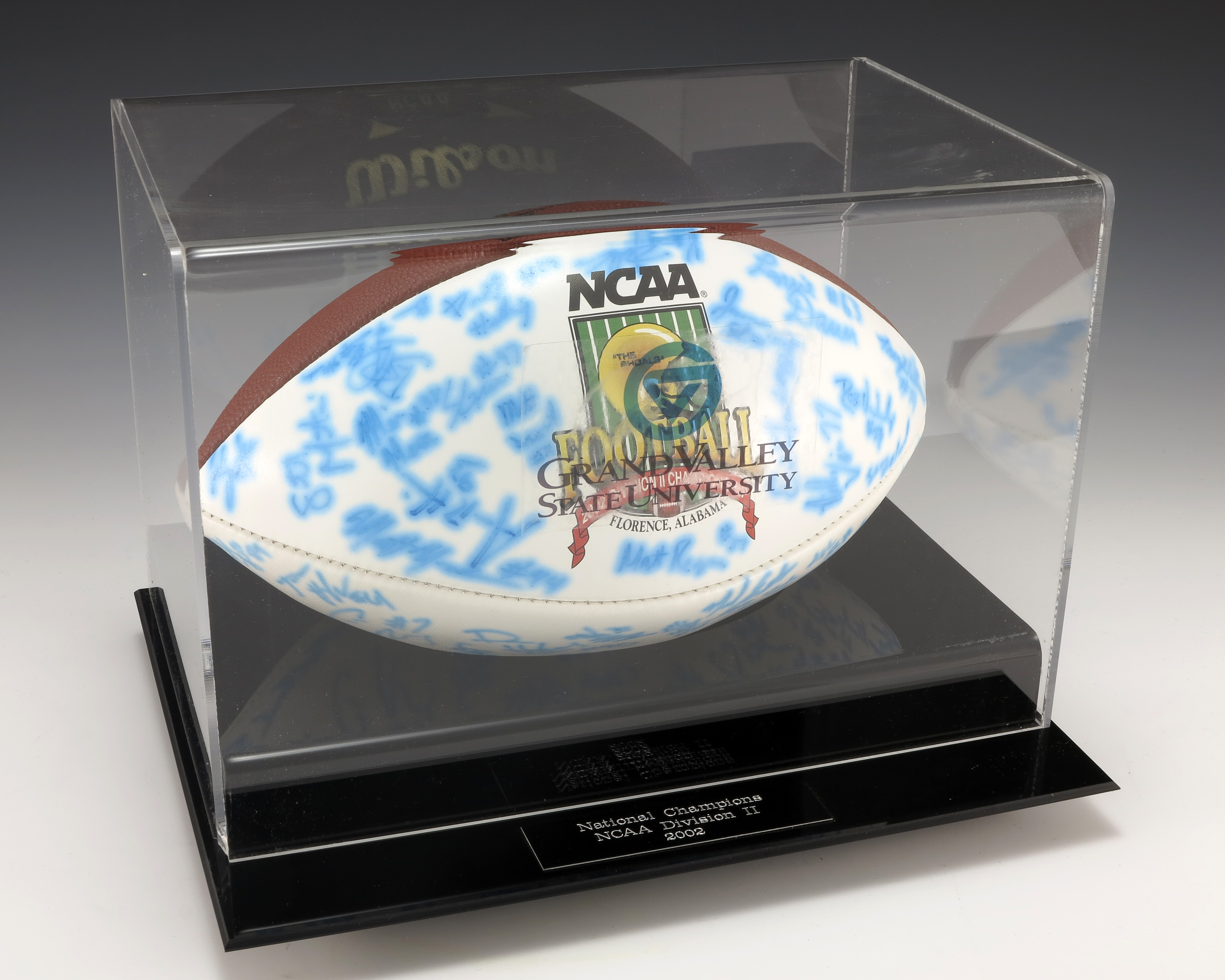 This leather football features one patch of brown leather with Wilson and NCAA written on it. The remainder of the football contains white leather featuring blue signatures and "Wilson" in black lettering. It also contains the NCAA 2002 Division II Championship logo. The football sits within a clear covering with the GVSU logo on the front and a black base that contains a plaque.